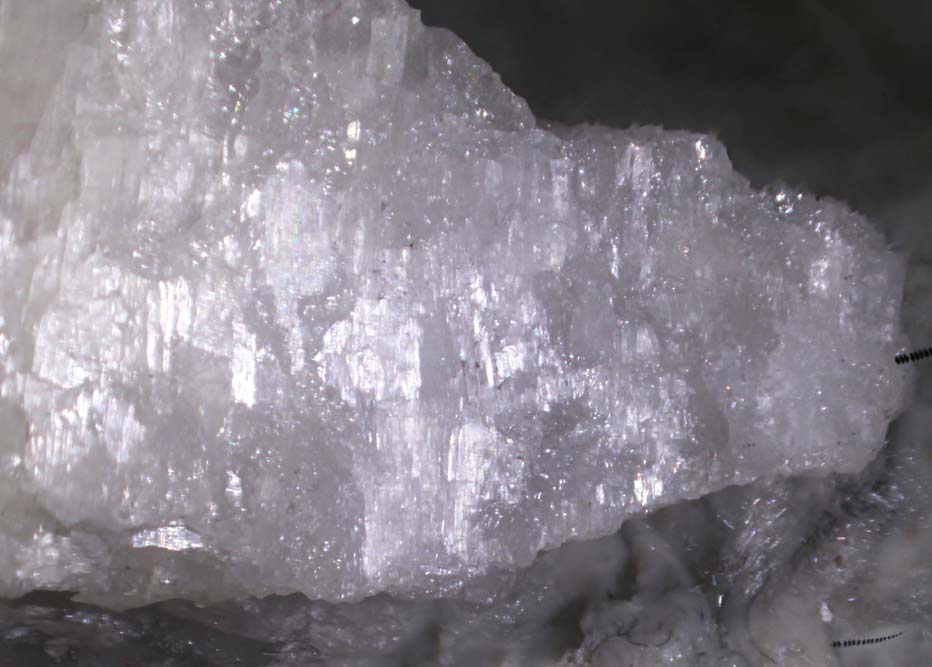 White crystal aggregates of this very rare mineral (a lithium carbonate) in spodumene. Also known as diomignite as stated in the old label from Ralph E. Merrill collection. From: Tanco Mine, Bernic Lake, Manitoba, Canada.